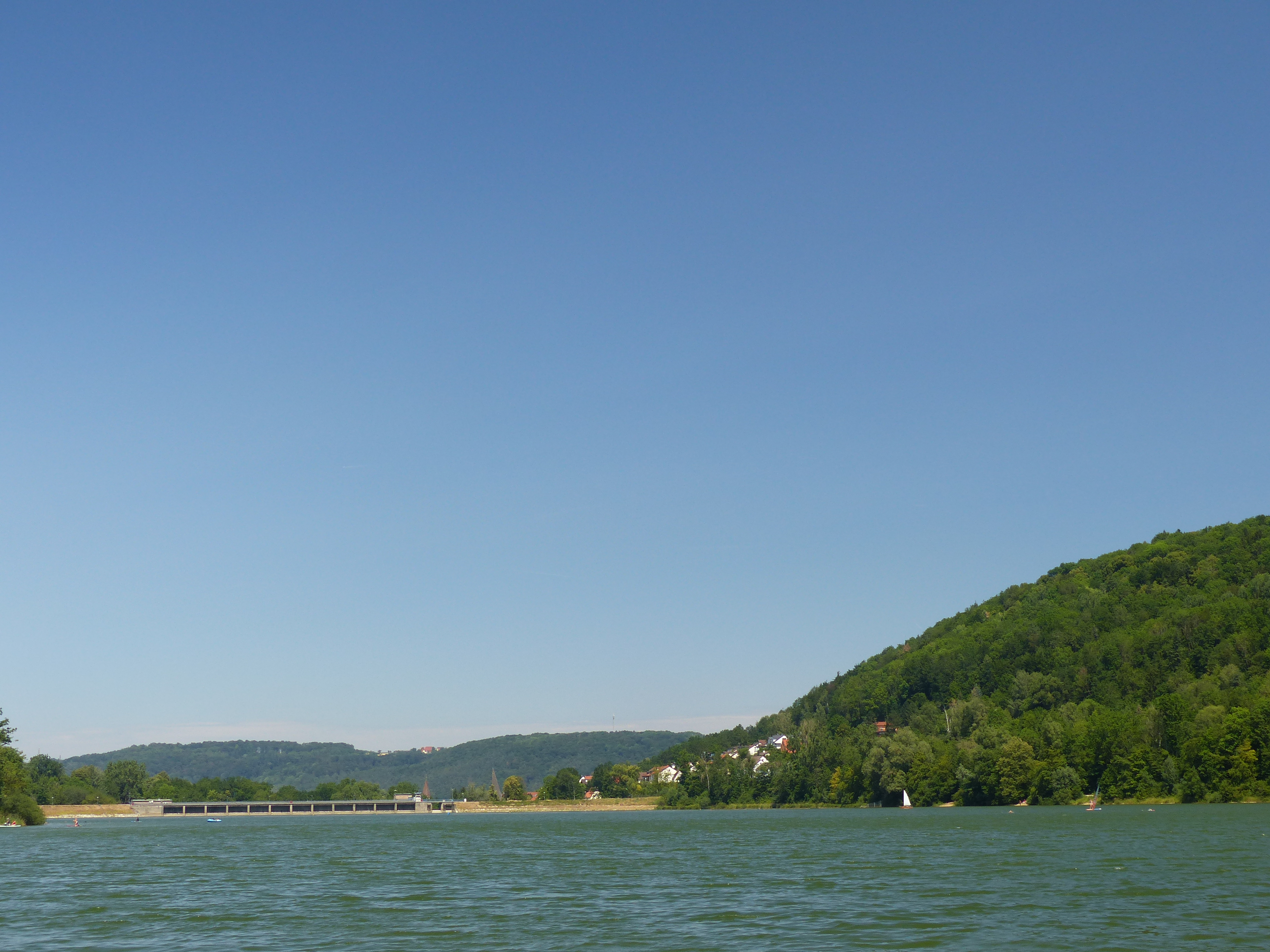 The Happurger See, a reservoir in the south-eastern part of the Hersbrucker Alb